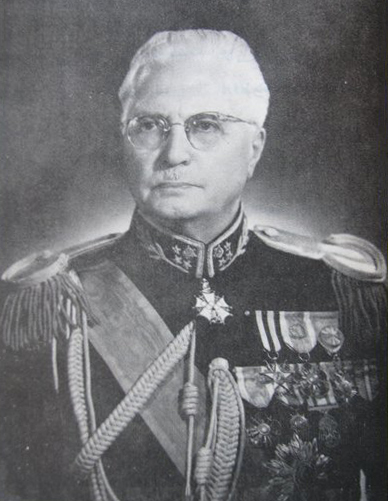 Lit. Gen. Am Djanhanbani